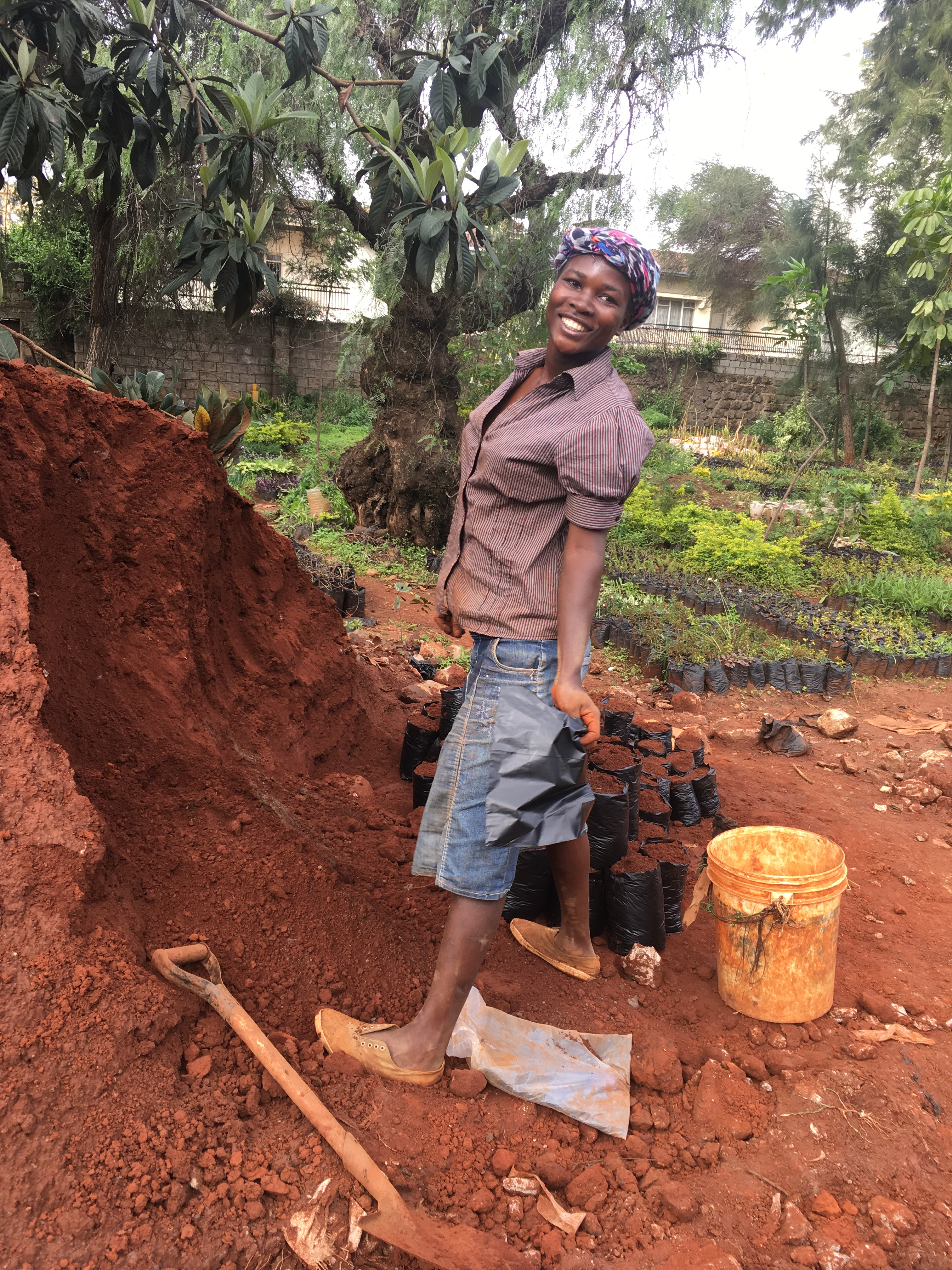 African woman in Nairobi working in a big flowerbed trade. This is an image of "African people at work" from Kenya